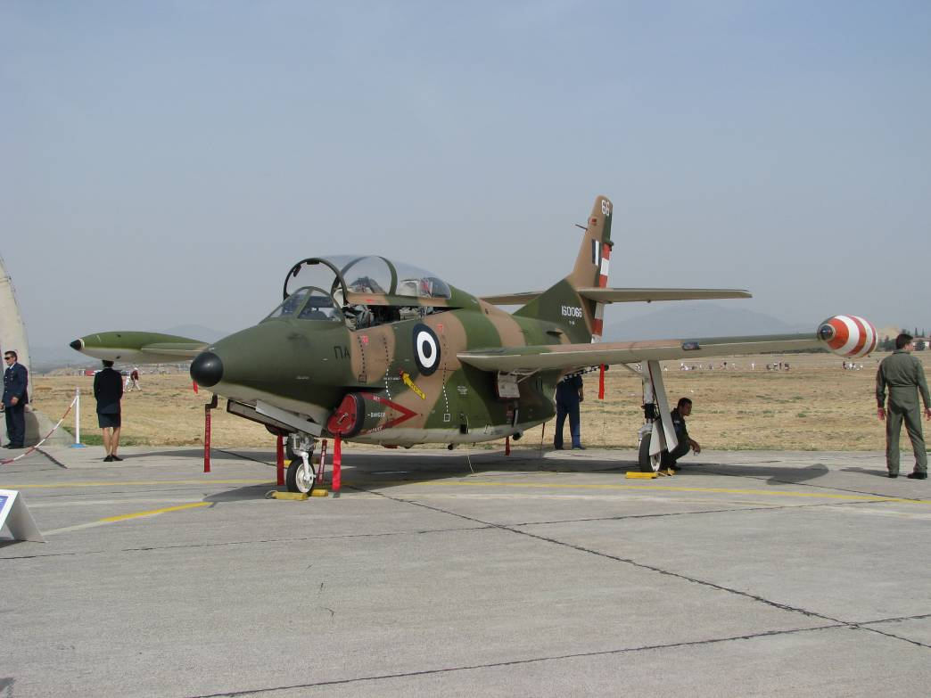 A Hellenic Air Force T-2C Buckeye displayed at the 2008 HAF air show, in Tanagra airbase, Greece